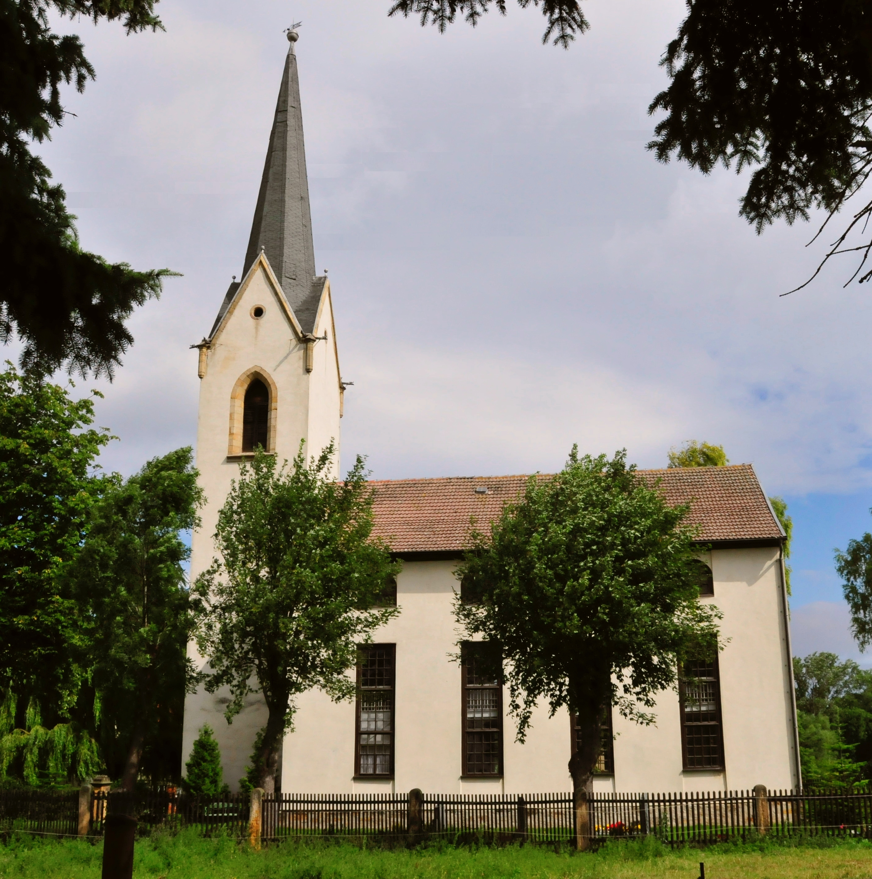 Bufleben-Pfullendorf, church